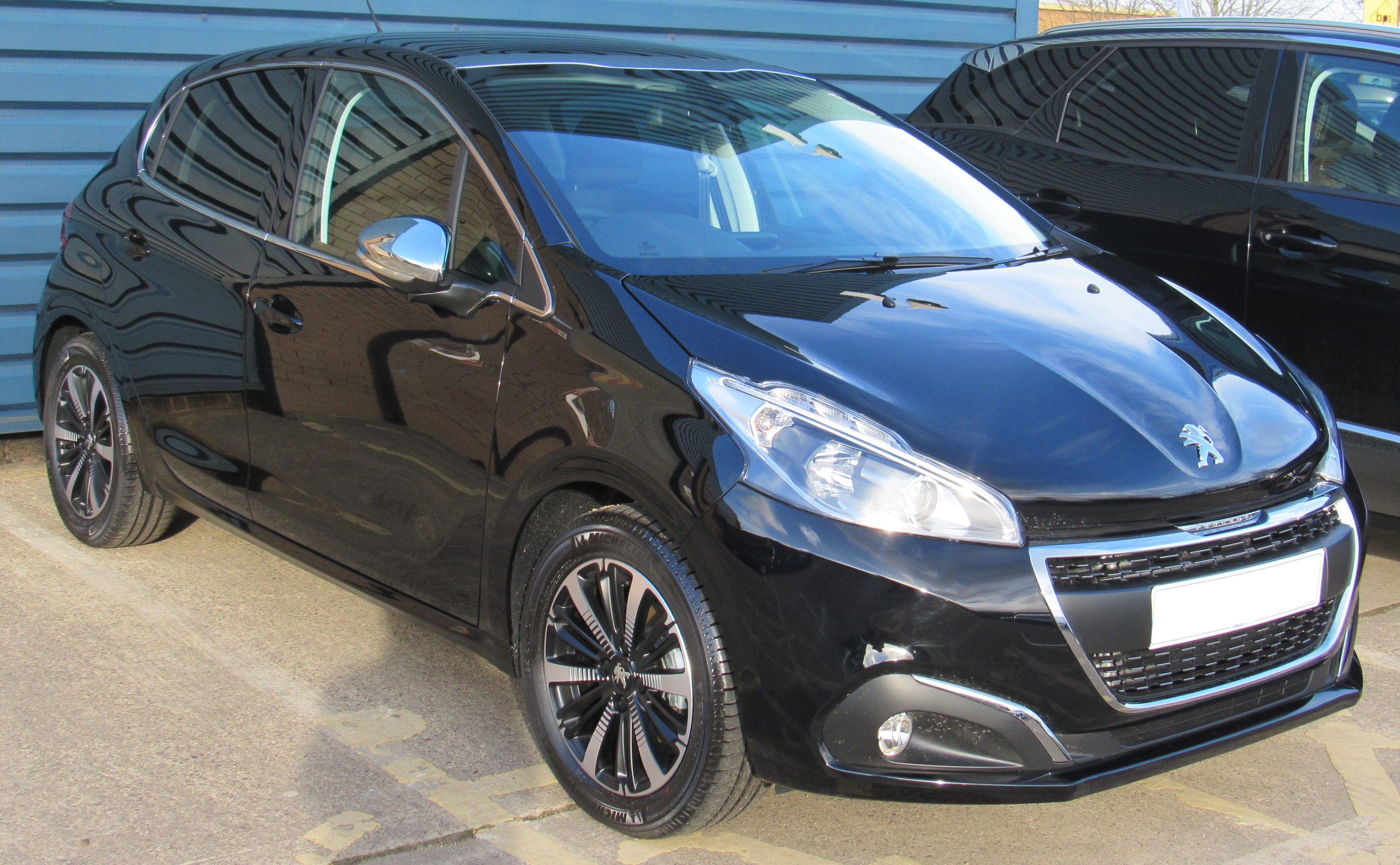 2018 Peugeot 208 GT-Line facelift 1.2 Taken in Leamington Spa